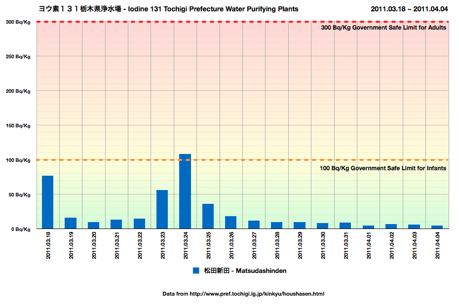 Iodine-131 water contamination in Tochigi Prefecture water purifying plants, March 15 to April 18, 2011